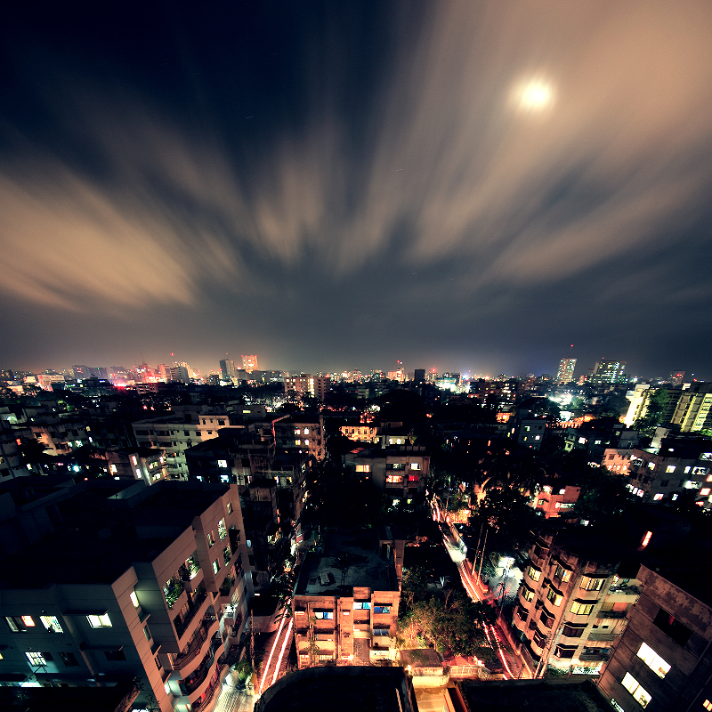 Picture of Dhaka at night.